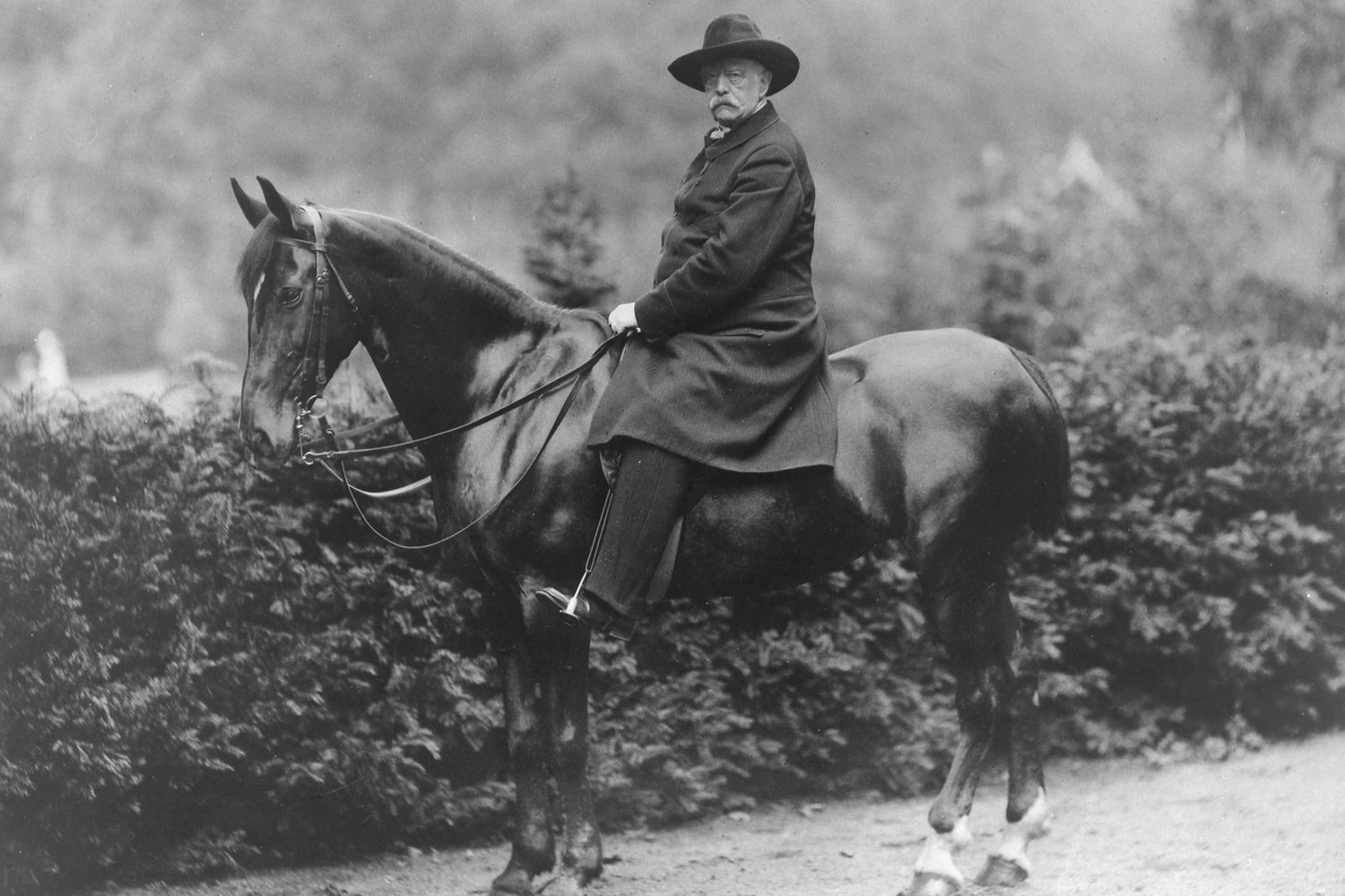 Otto von Bismarck on horseback